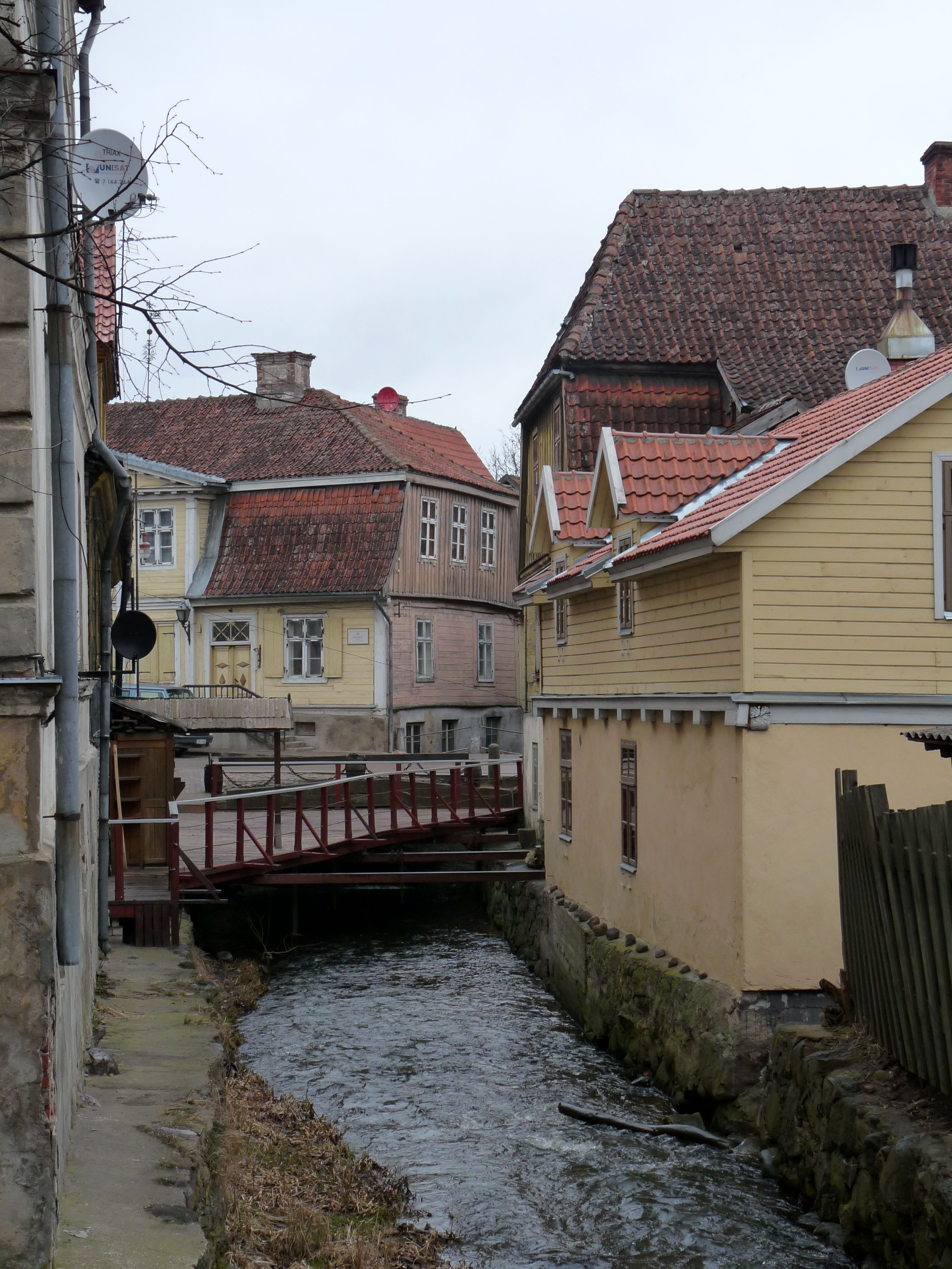 Canal in Kuldiga, Latvia